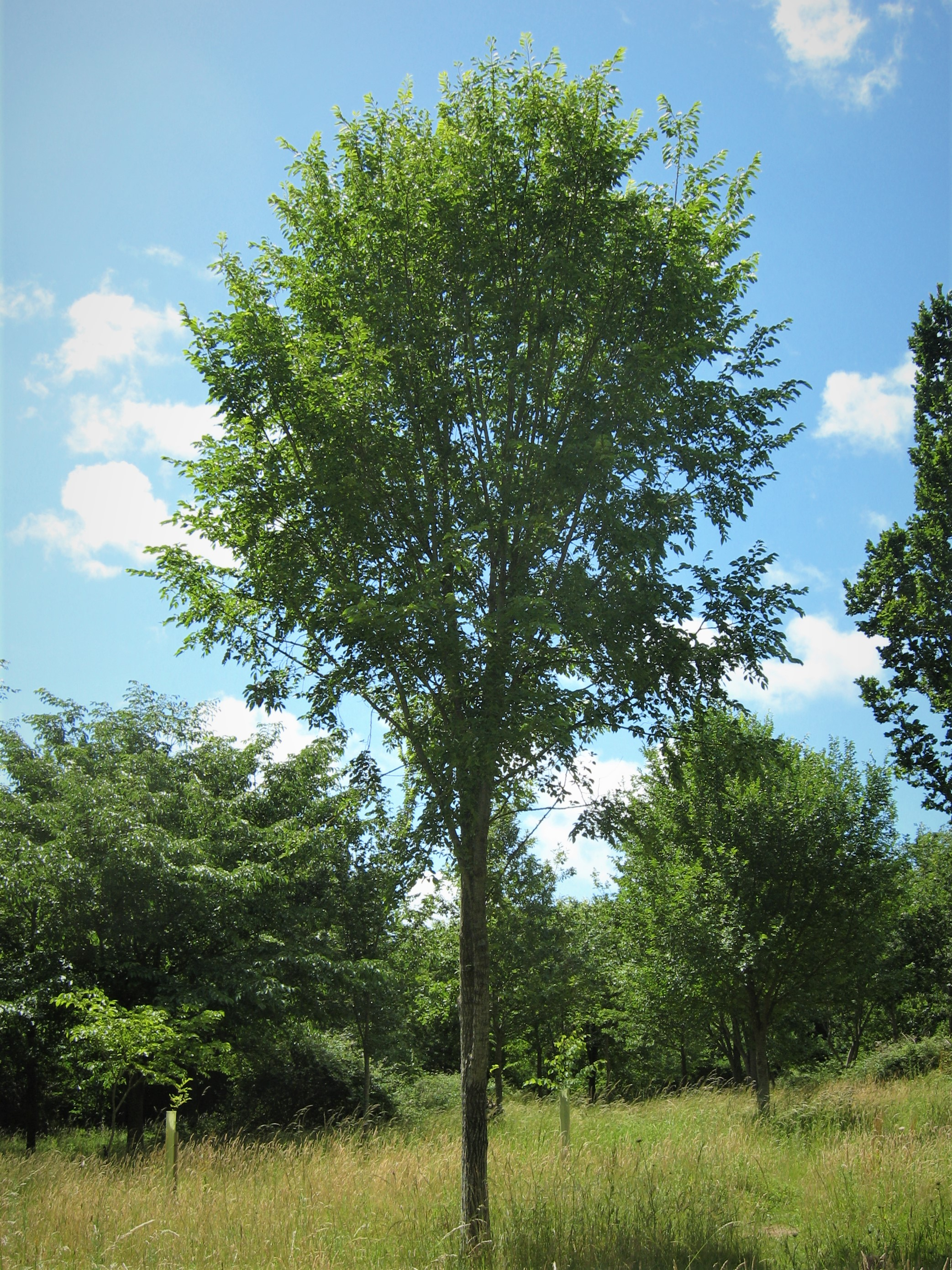 Italian hybrid elm cultivar 'San Zanobi'